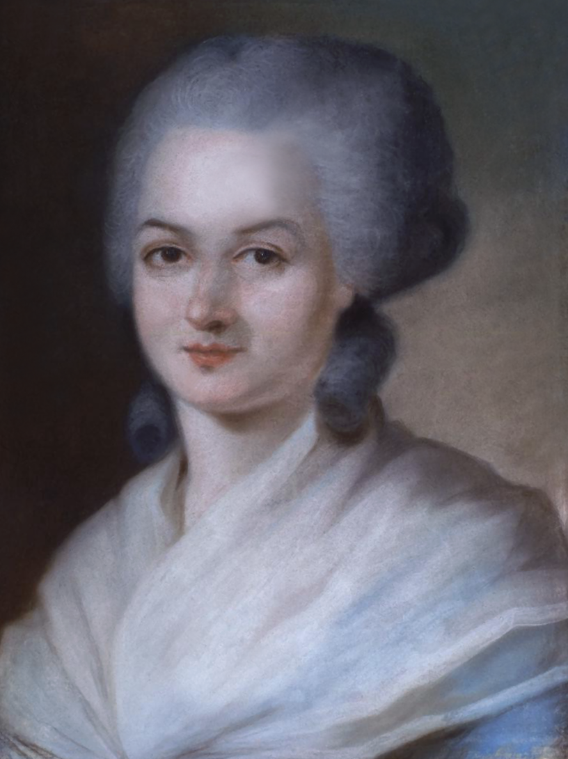 Portrait of Olympes de Gouges (1748–1793)